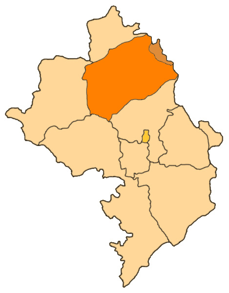 Location of Hadrout in NKR